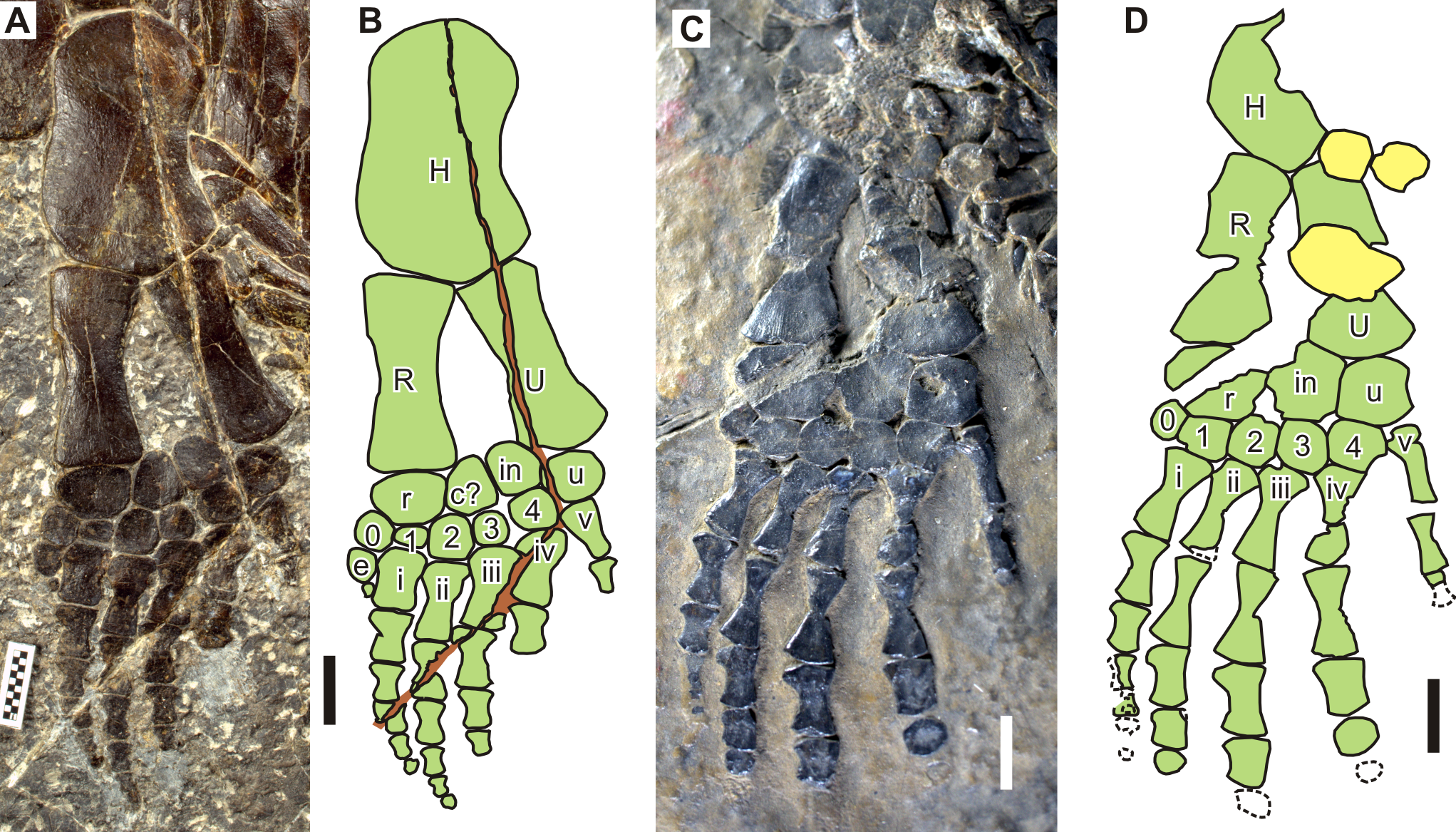 Forelimbs of the holotypes of Parahupehsuchus longus (WGSC 26005) and Hupehsuchus nanchangensis (IVPP V3232). (A), left forelimb of WGSC 26005. (B), map of A. (C), left forelimb of IVPP V3232. (D), map of C. Bone identifications: c?, bone identified as centralia by [12]; e, extra anterior metacarpal; H, humerus; in, intermedium; R, radius; r, radiale; U, ulna; u, ulnare; 0–4, distal carpals; i–v, metacarpals. Scales are 1 cm.